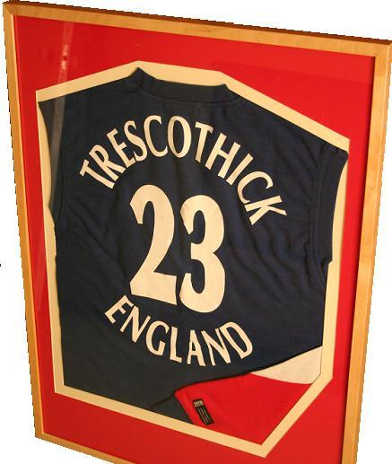 Cricket shirt of Marcus Trescothick